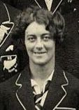 Ena Stockley